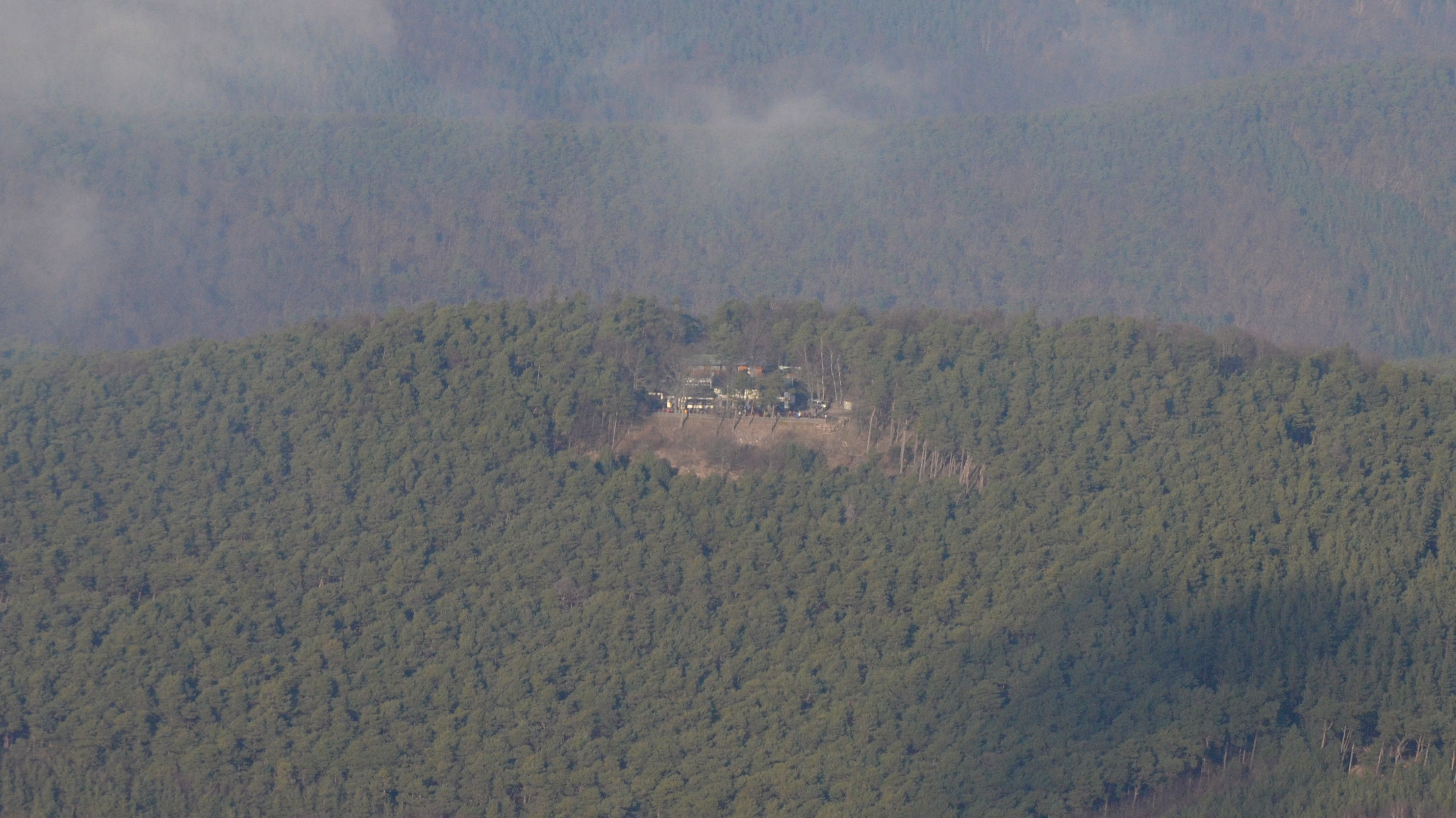 Hohe Loog out of an Aircraft.